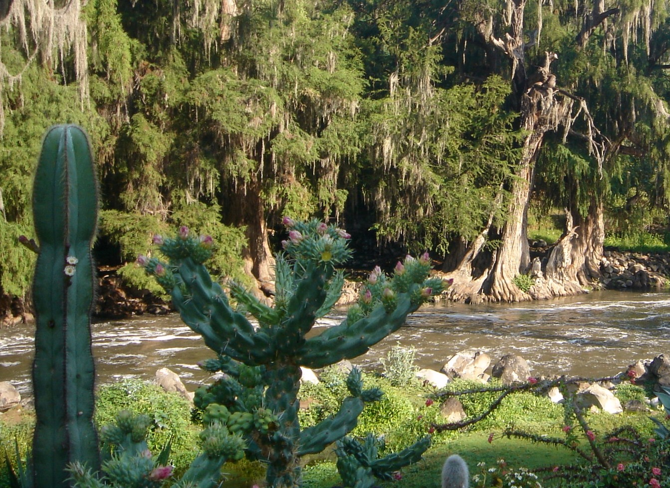 Picture Taken from the "rio tula" in Mixquiahaula de Juárez